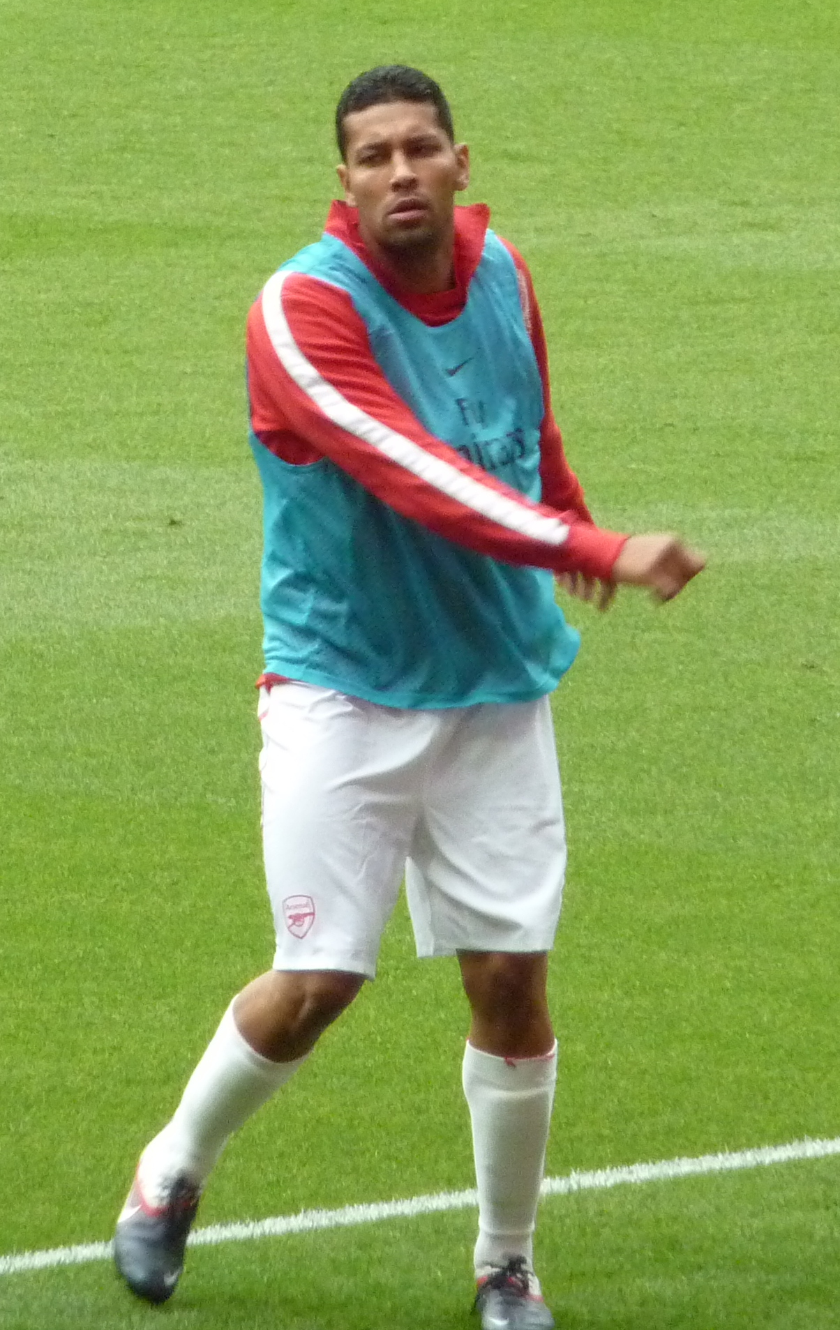 Brazilian football player André Santos during a warm-up before Arsenal FC match against Swansea FC.